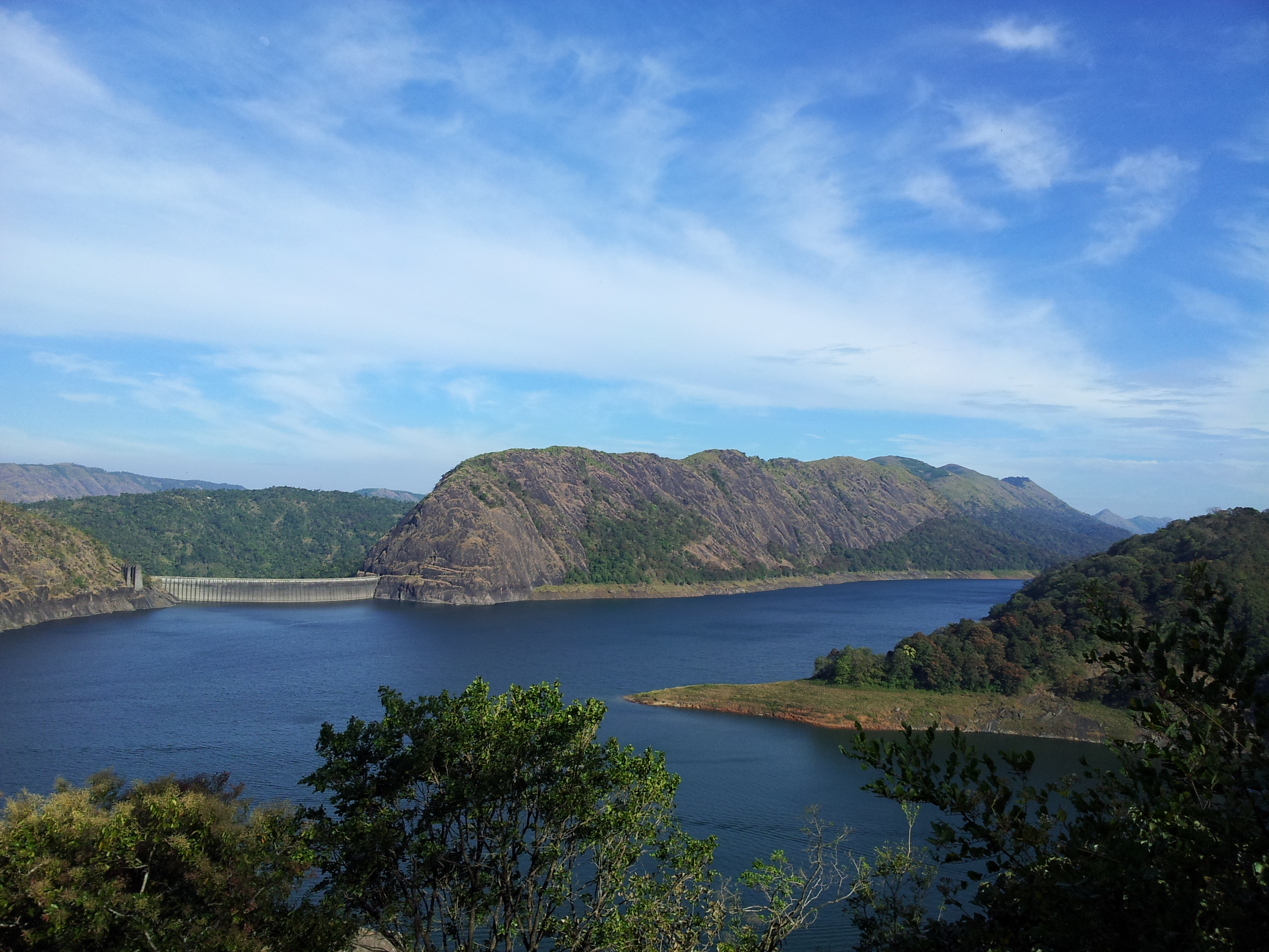 Idukki Dam view